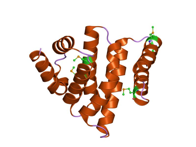 Cartoon representation of the molecular structure of protein registered with 1paq code.